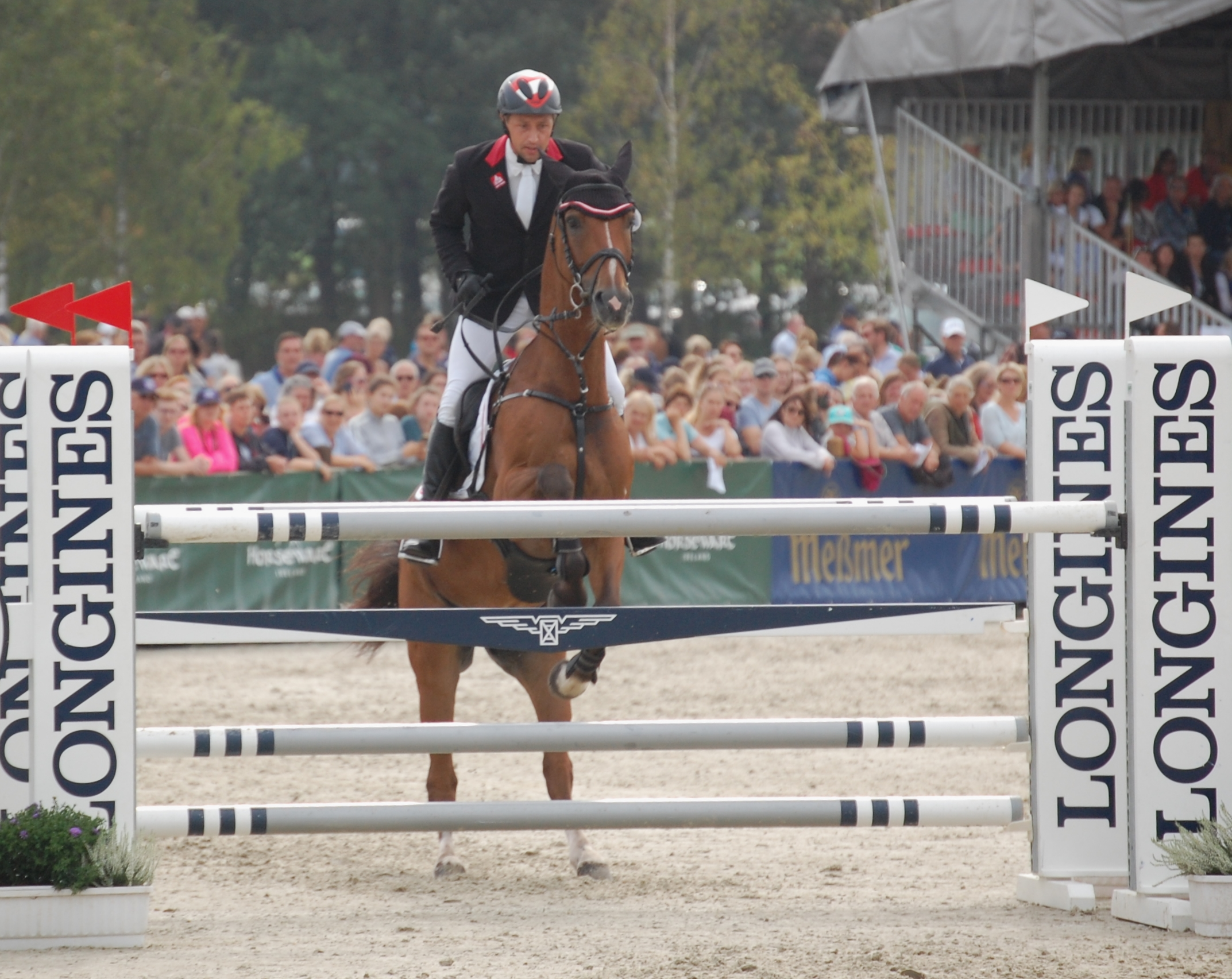 Austrian rider Harald Ambros and Lexikon, Show jumping phase, 2019 European Eventing Championship, Luhmühlen